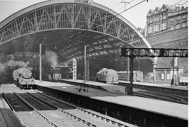 Liverpool Lime Street Station in Steam days. View inward towards buffer-stops in 1959. The wires are up for the electrification, but electric services (from Crewe) did not commence for nearly another three years. Instead, we see a dirty 'Jubilee' 4-6-0, No. 45670 'Howard of Effingham' waiting to leave on the 10.05 express to Birmingham; the bunker-first Stanier 4MT 2-6-4T in the centre will have worked a local from Wigan via St Helens.